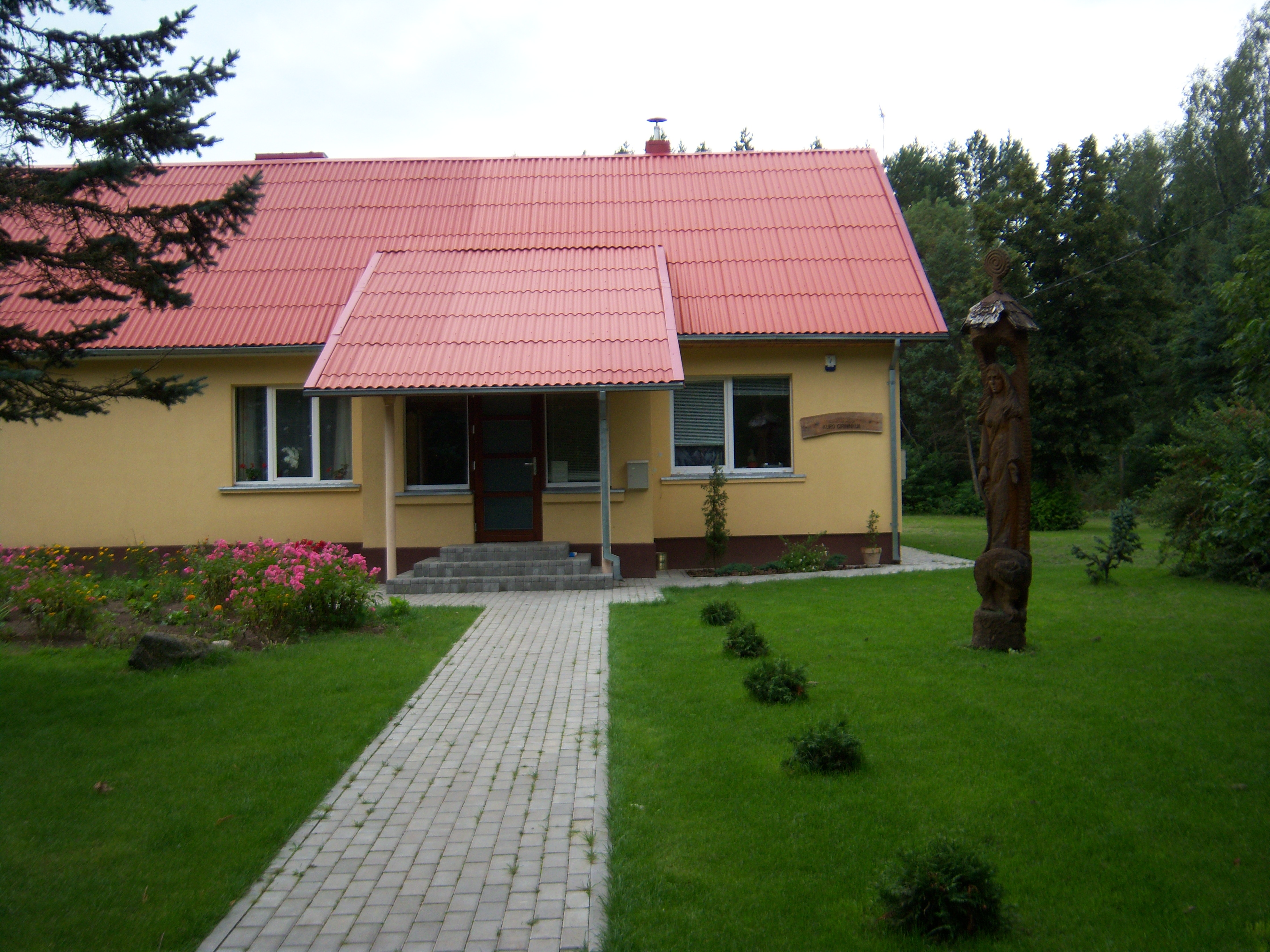 Forest range Kuro in Altoniškiai, Kaunas district, Lithuania